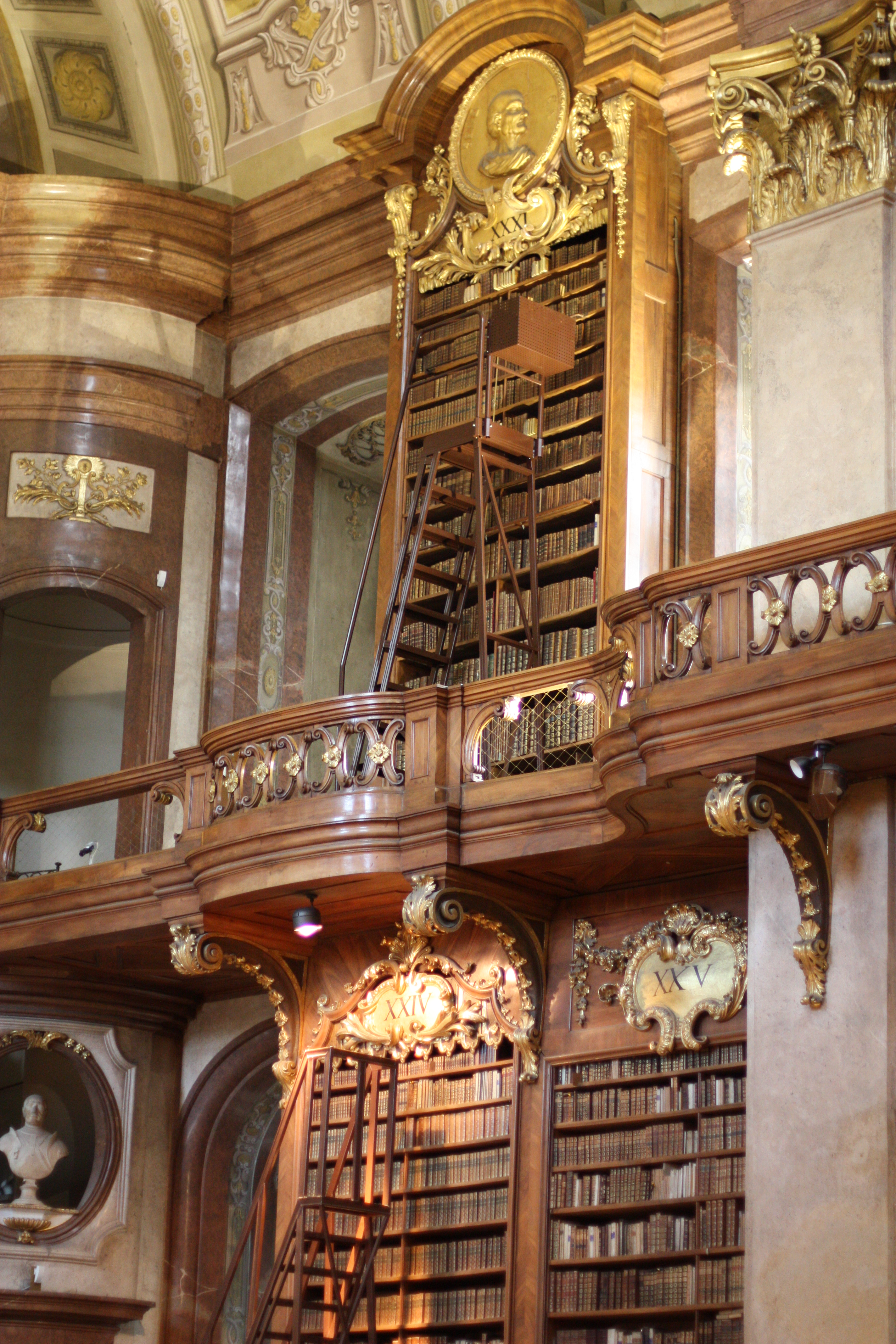 Prunksaal Hofbibliothek Wien, State Hall of the Austrian National Library, Vienna